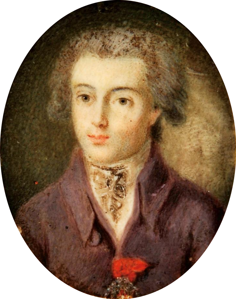 Portrait of Alexandre de Sousa Holstein, Count of Sanfrè in Piedmont (1751-1803)